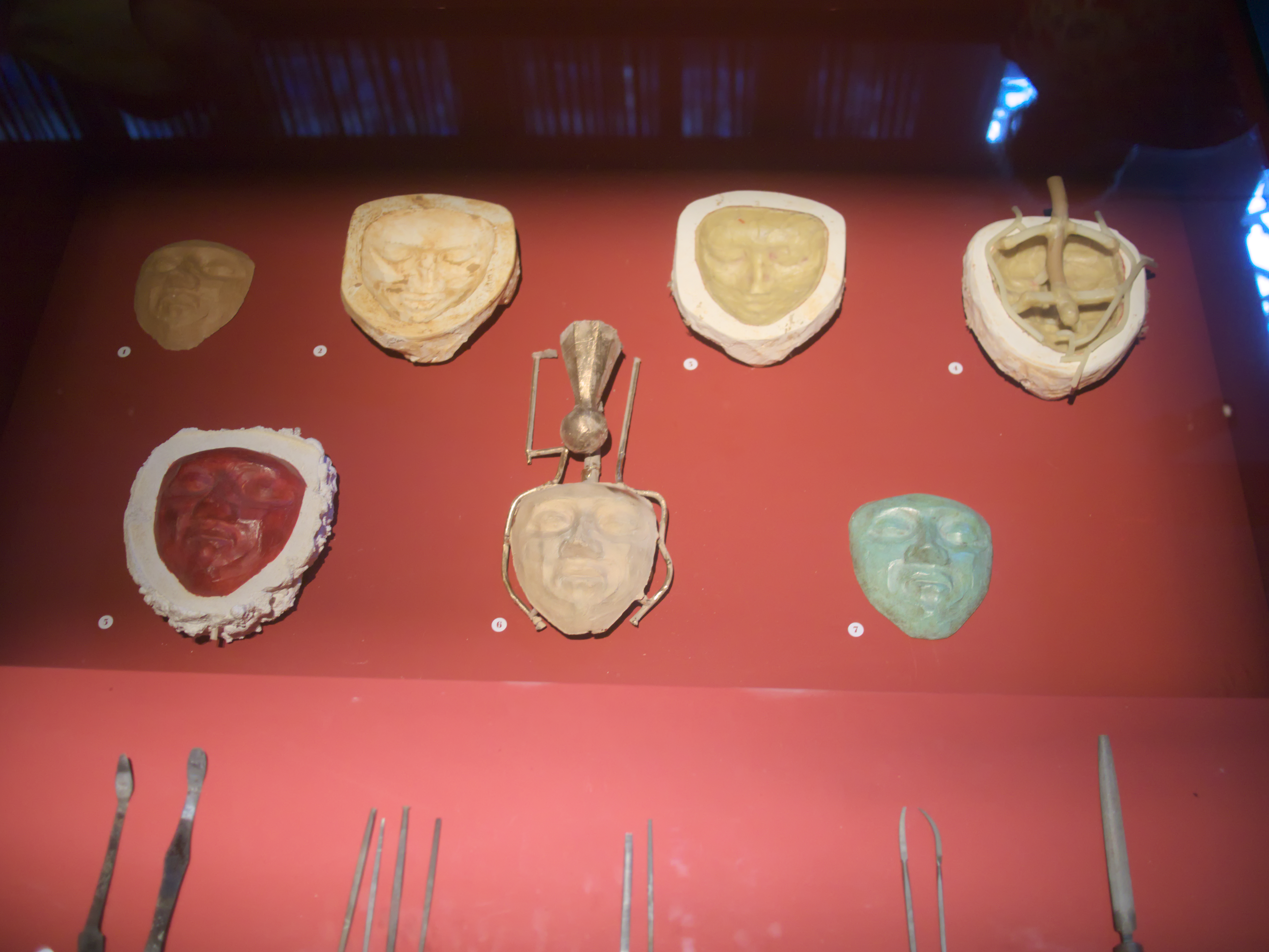 photograph taken during the temporary exposition that took place at the MuCEM of Marseille in august 2014.